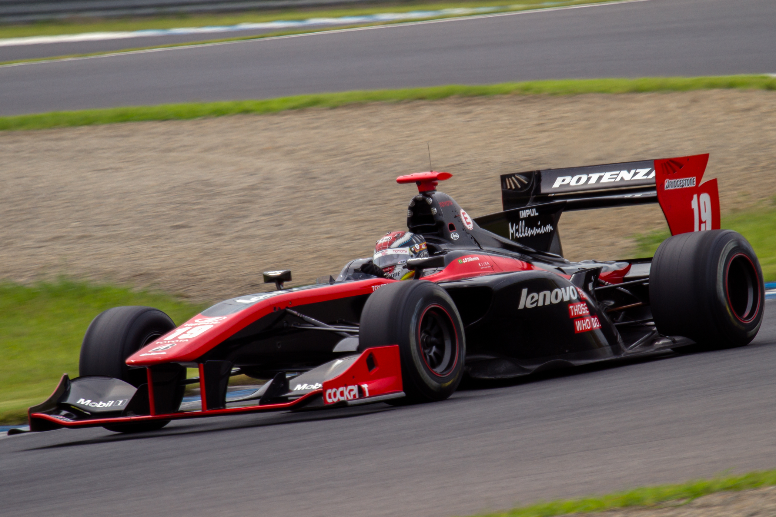 Super Formula 2014 Rd.4 Motegi: João Paulo de Oliveira (Team Impul)